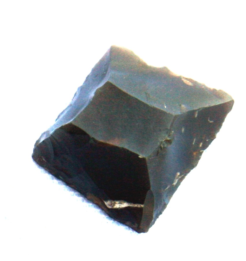 Tinderbox